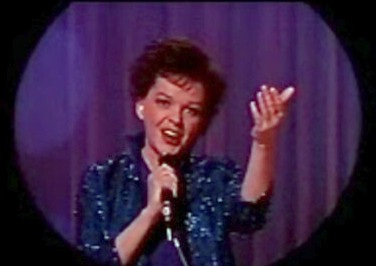 Cropped screenshot of Judy Garland from the trailer for the film I Could Go On Singing